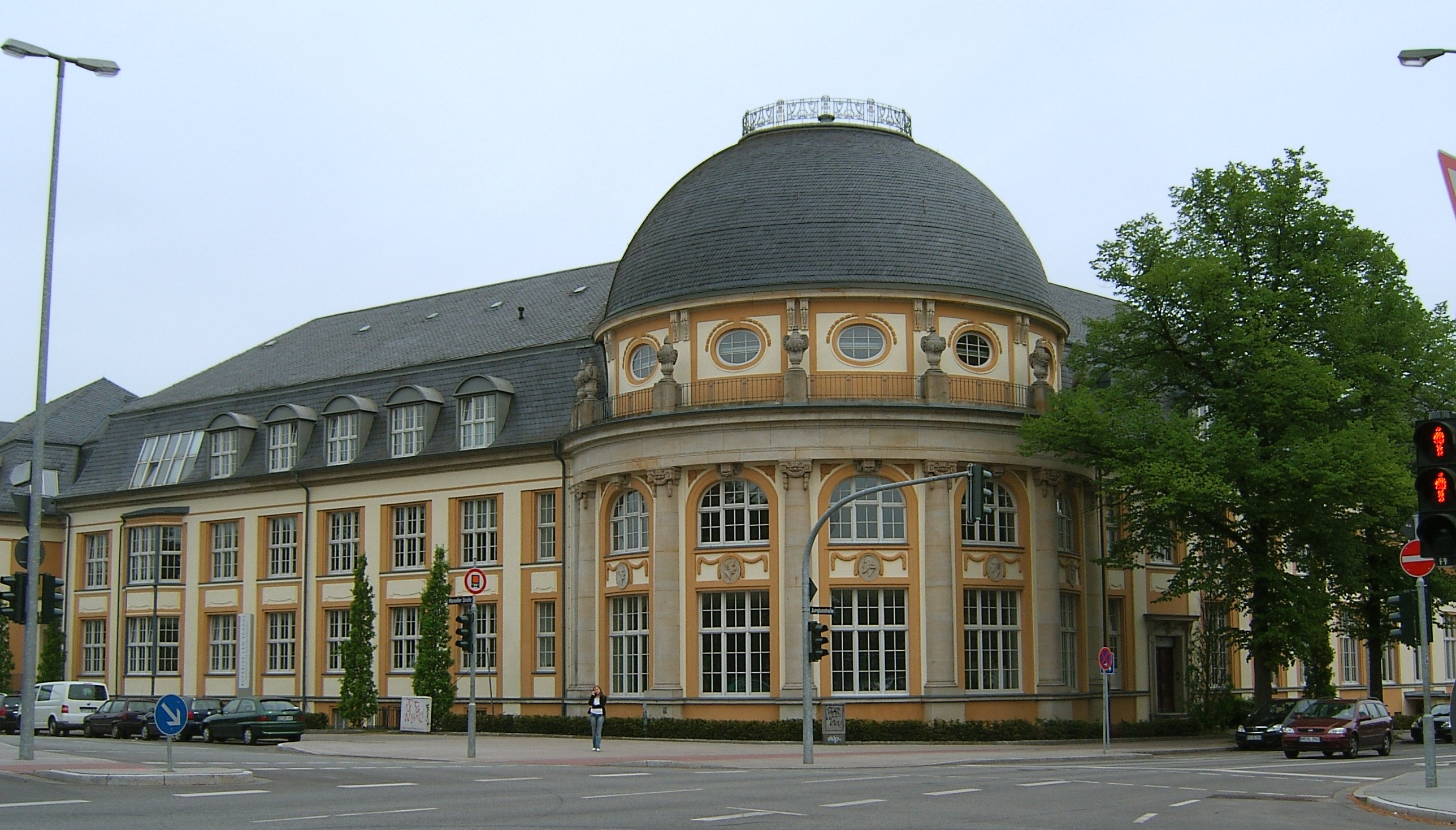 The Bucerius Law School in Hamburg